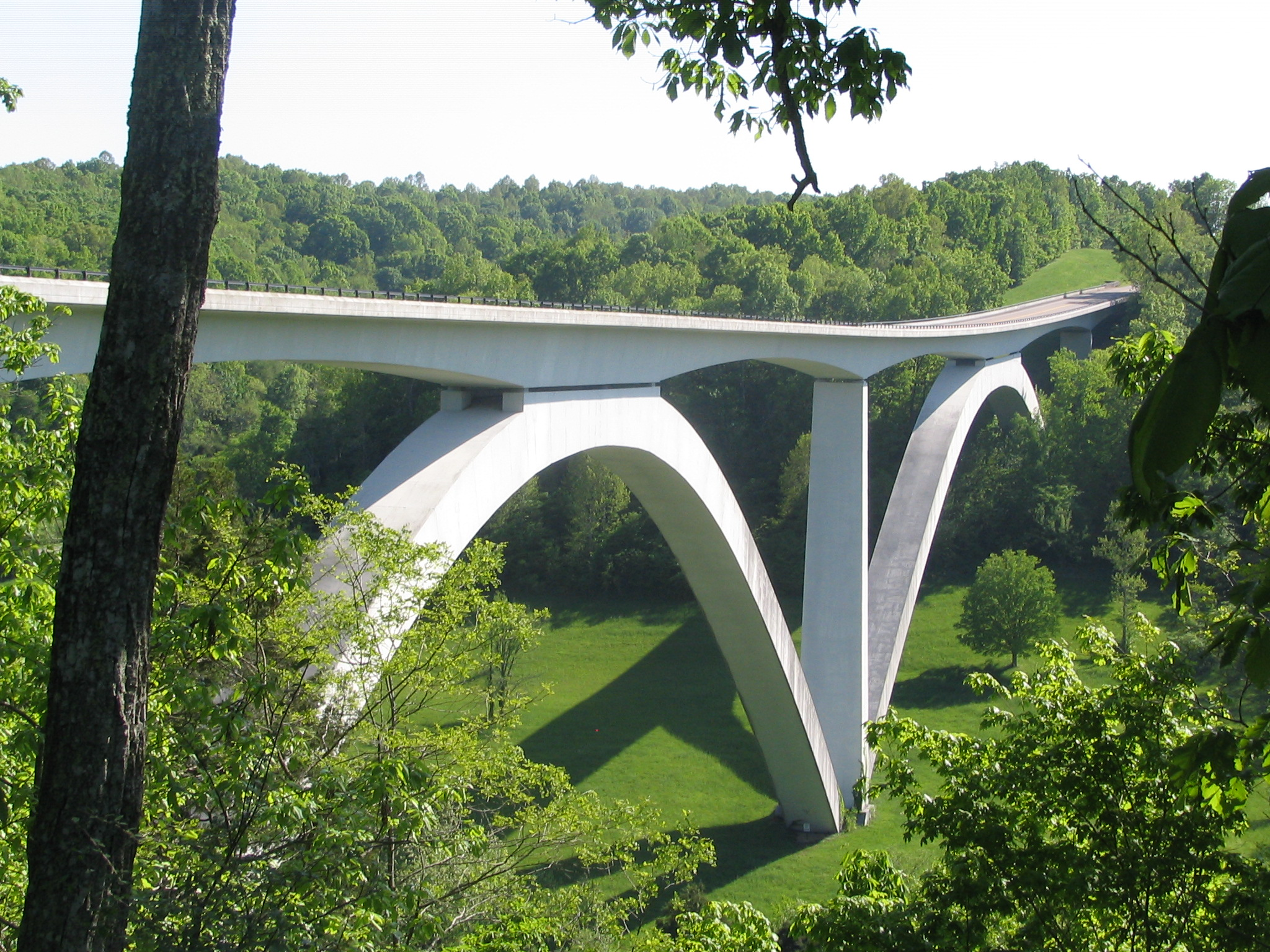 Photo of Natchez Trace Parkway Bridge. The Natchez Trace Parkway Bridge is the nation's first segmentally constructed concrete arch bridge. It is in Williamson County, not far from Davidson County. it is 155 feet high above Highway TN 96 (which will go into Franklin) and is 1,648 feet long